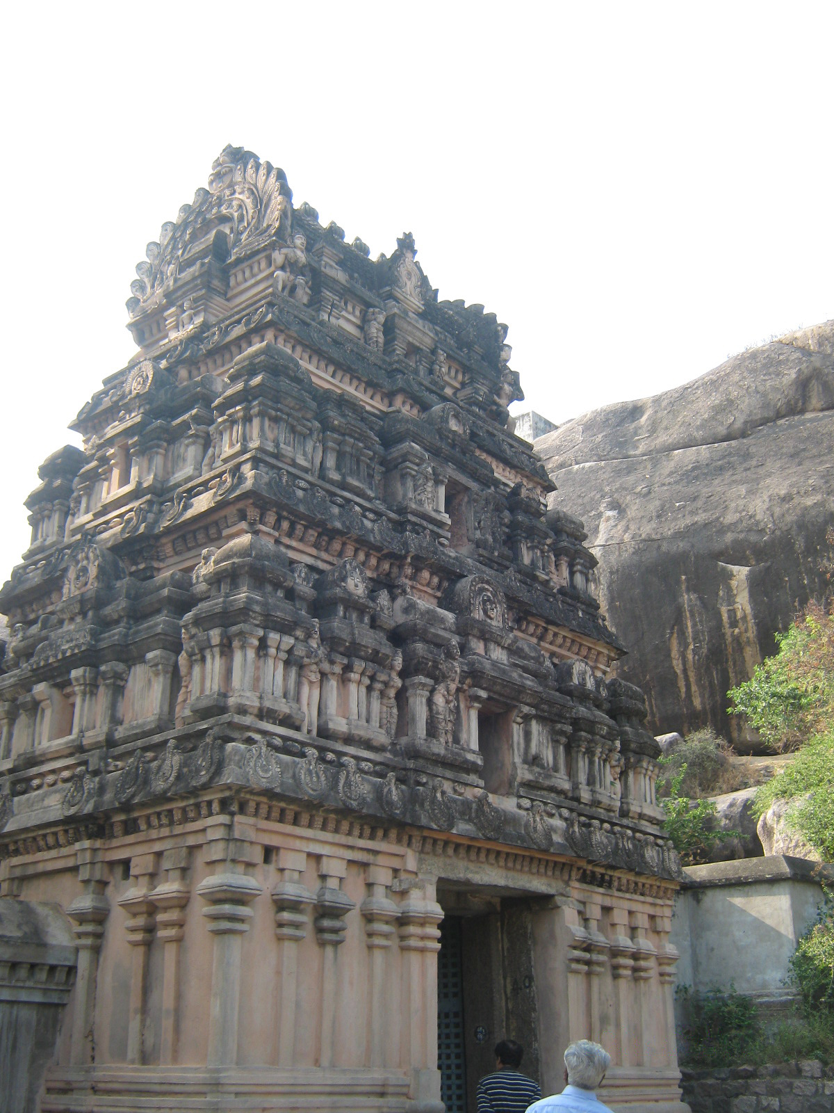 Jain Temple - Tirumalai,Thiruvannamalai Shrine at the foot of the hill